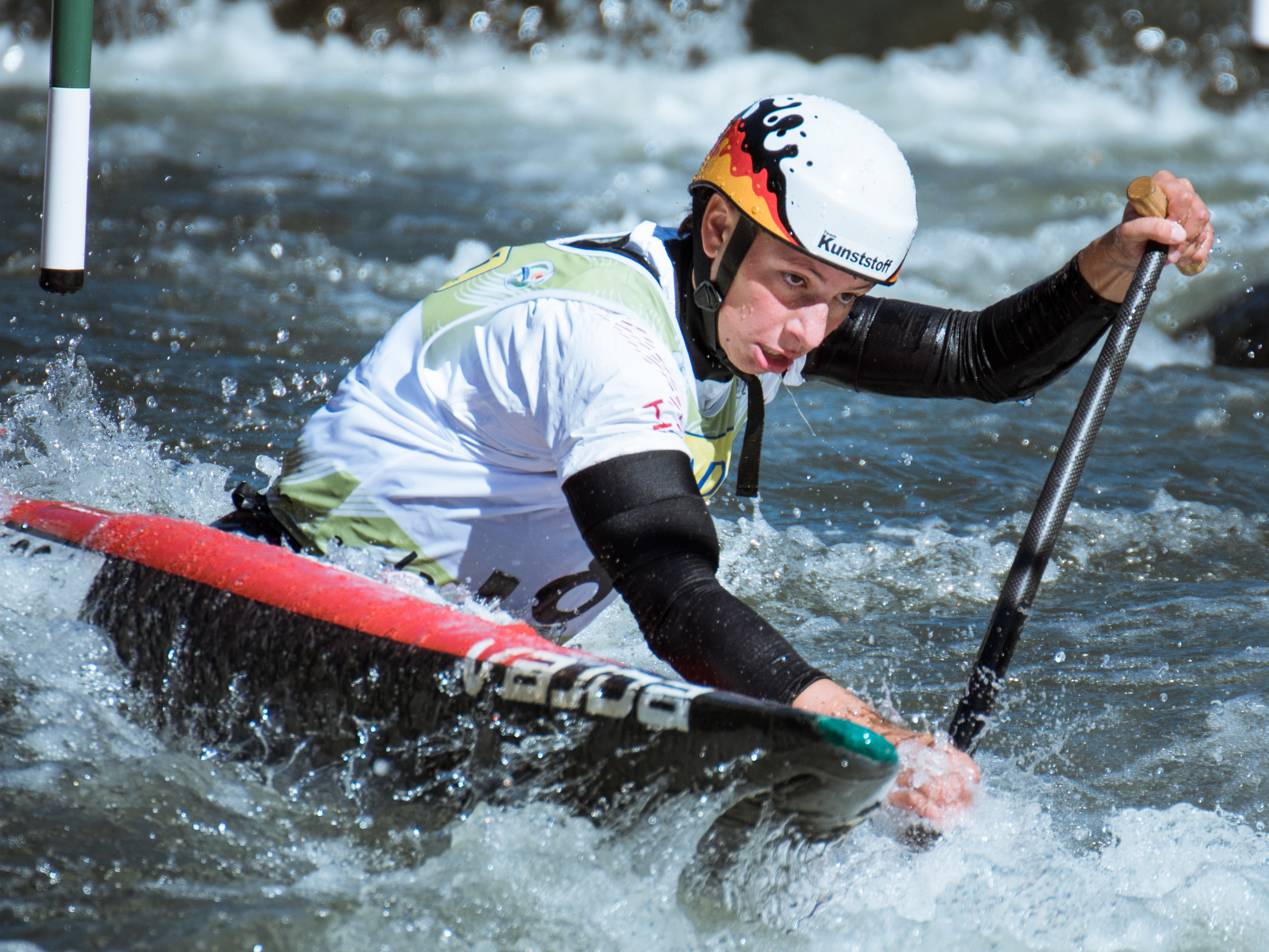 Andrea Herzog during the 2019 Canoe Slalom World Championships in La Seu d'Urgell, Spain.